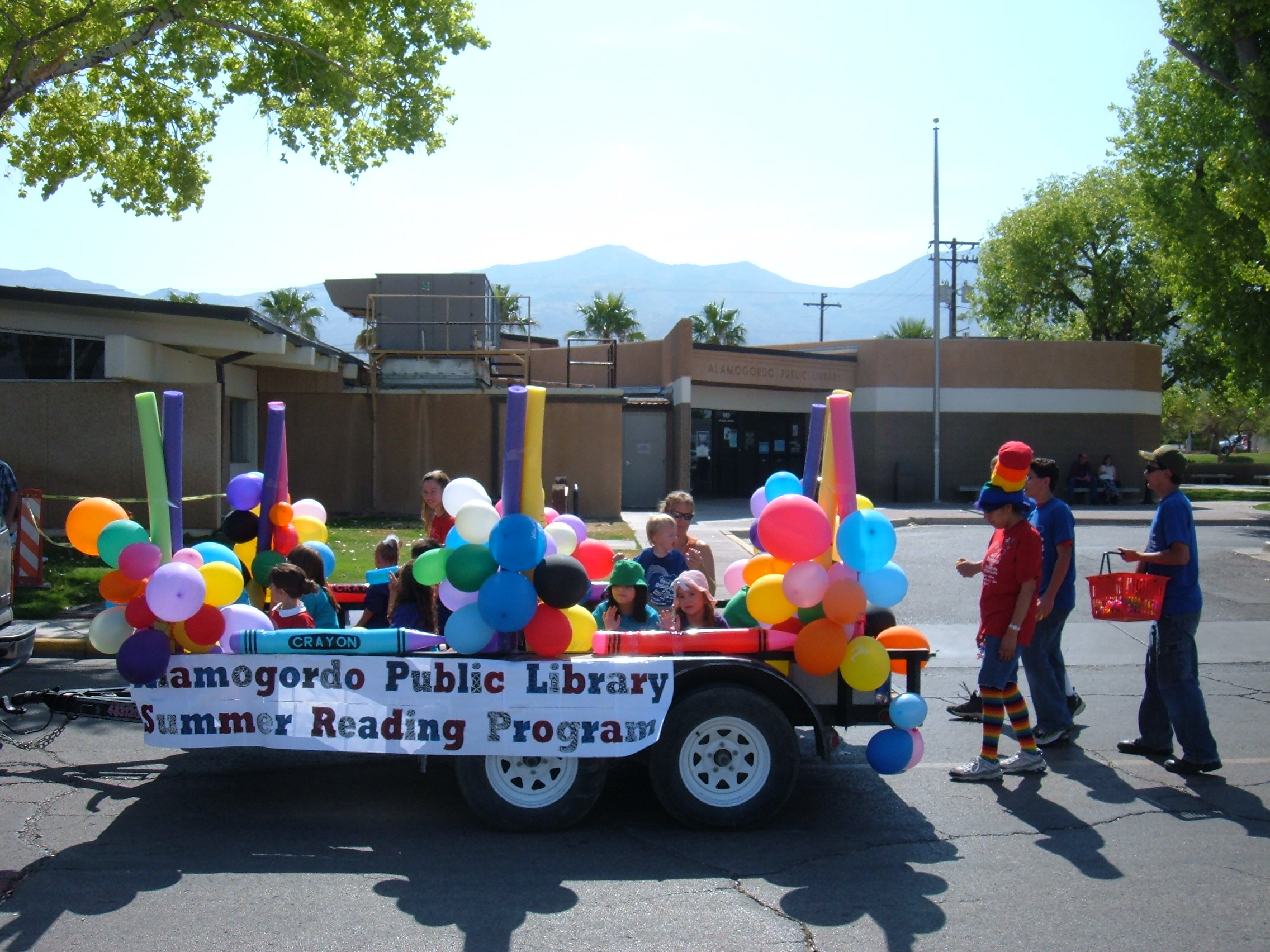 Alamogordo (New Mexico) Public Library's Summer Reading Program float in the 2007 Independence Day parade. The library building is in the background, and behind it the Sacramento Mountains. The bright colors illustrate the 2007 children's Summer Reading Program theme "Read a Rainbow".